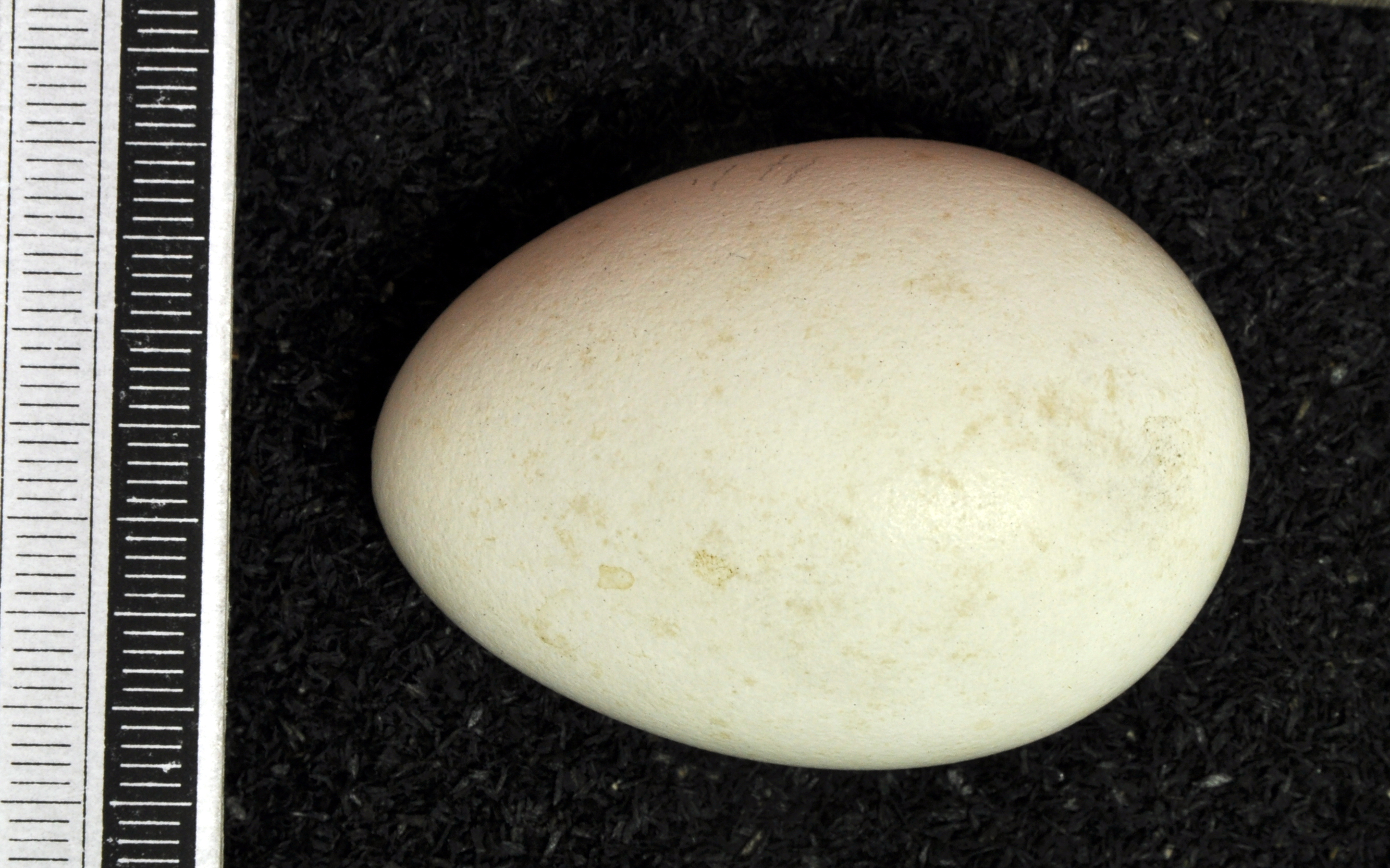 Pallid harrier Circus macrourus , egg, Coll. Museum Wiesbaden